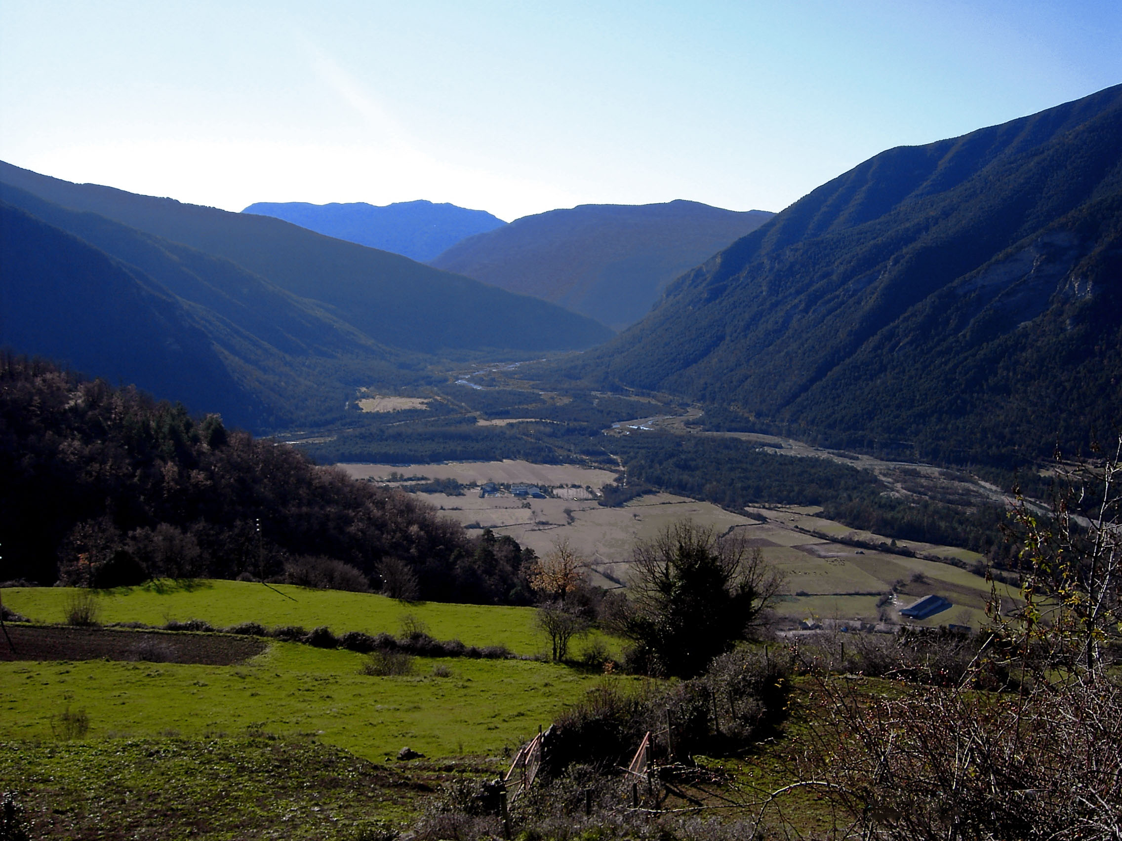 LLanos de Planduviar, river Chate's mouth on the Ara, straight in the middle of a former glacial moraine from the cuaternary period. Huesca, Spain.